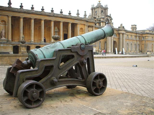 Cannon, Blenheim Palace Standing guard.